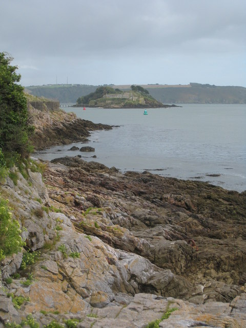 Rocky foreshore at Devil's Point Drake's Island in the distance.